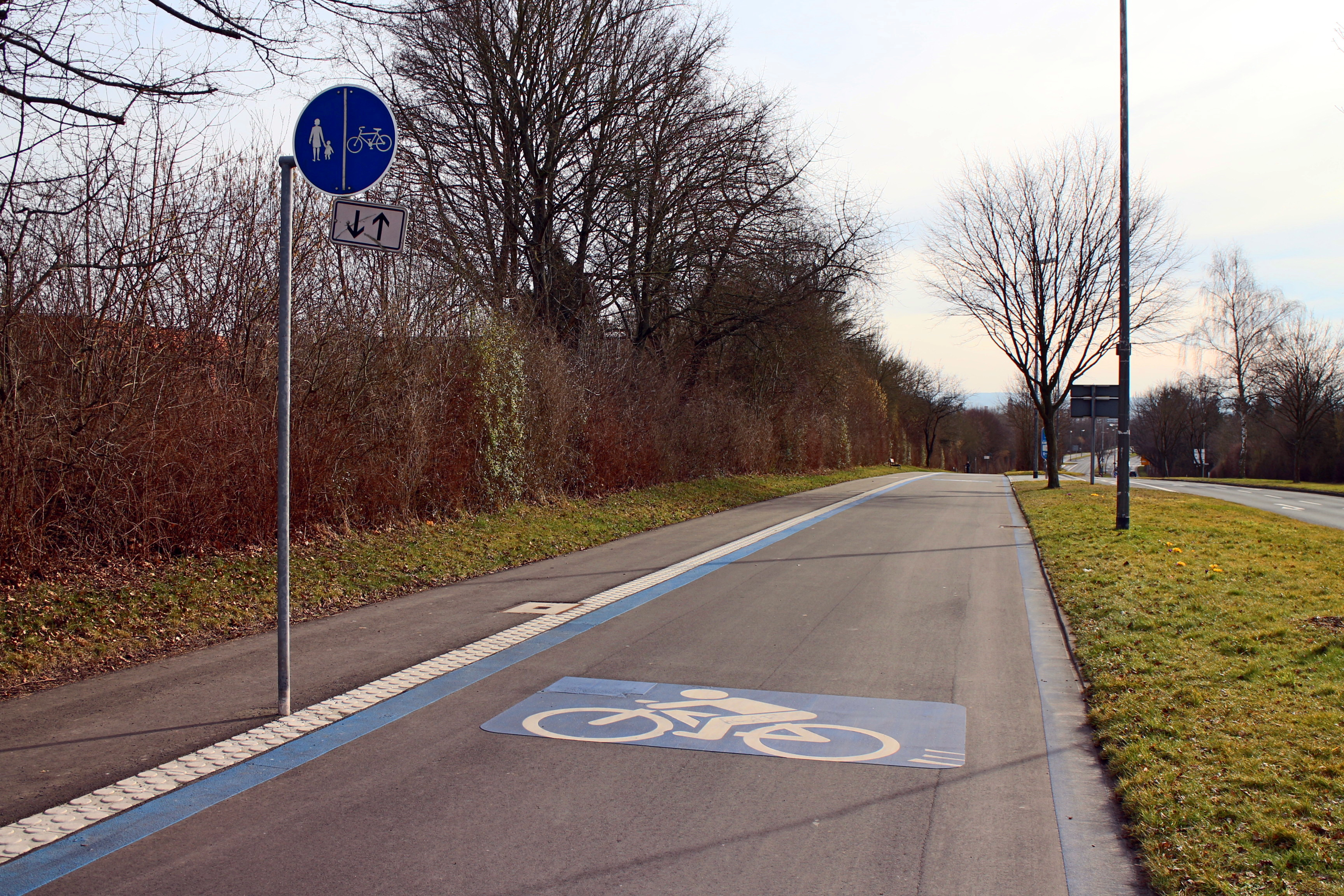 Germany: pedelec cyclehighway Göttingen: Comfort bike route with width of 4 m. and flyer german/englisch